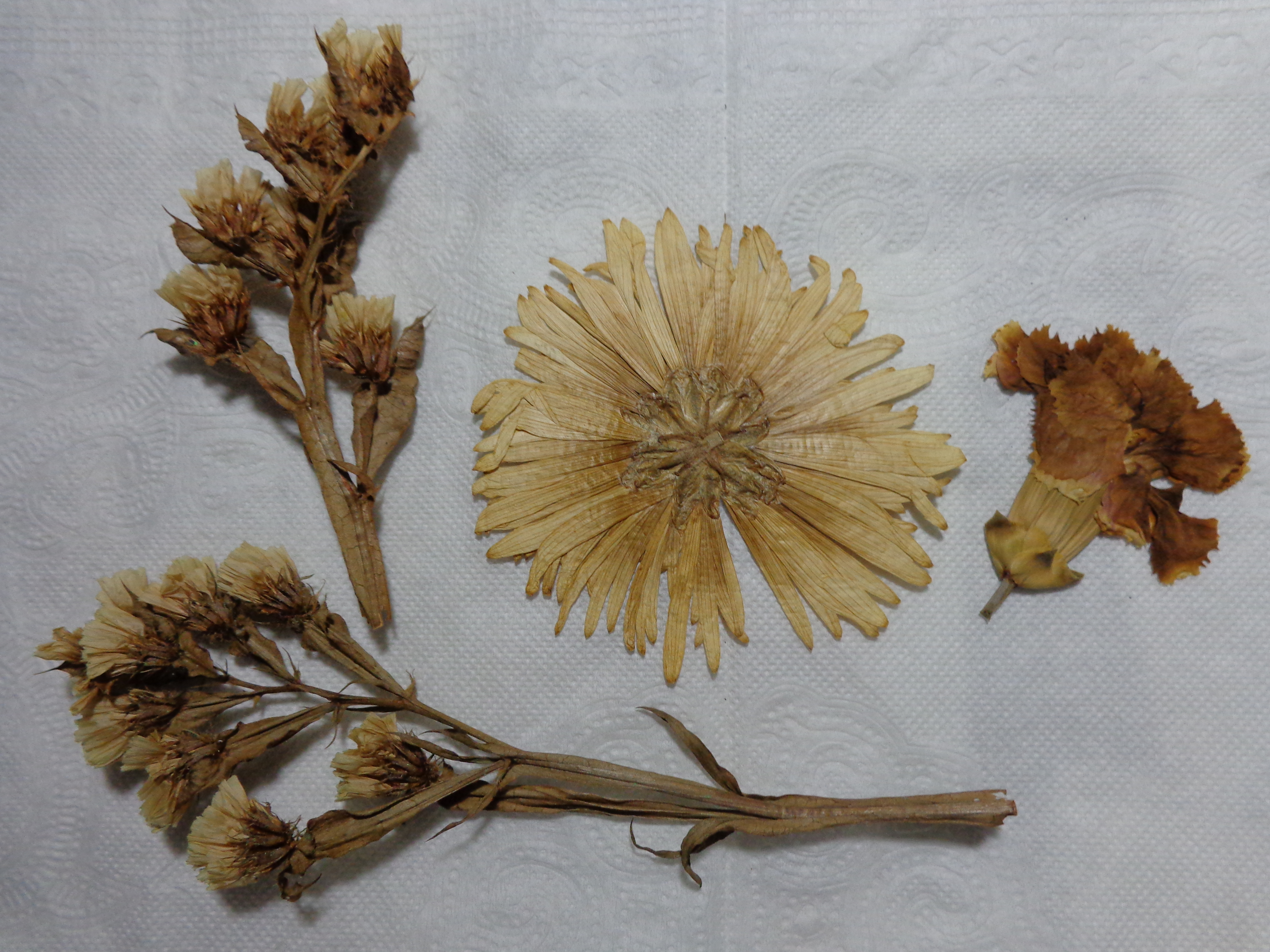 Some dried flowers